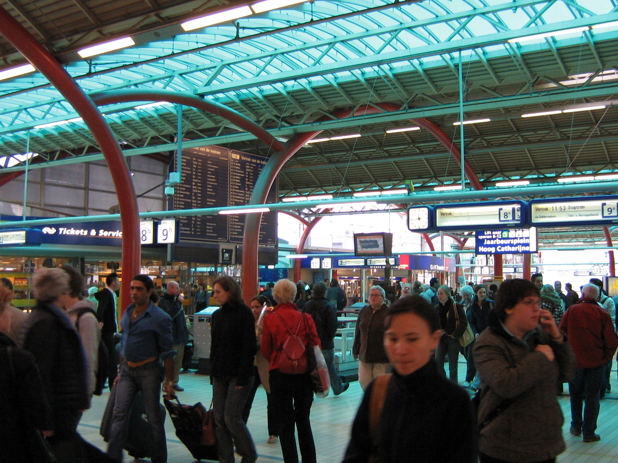 Utrecht: Stationshal